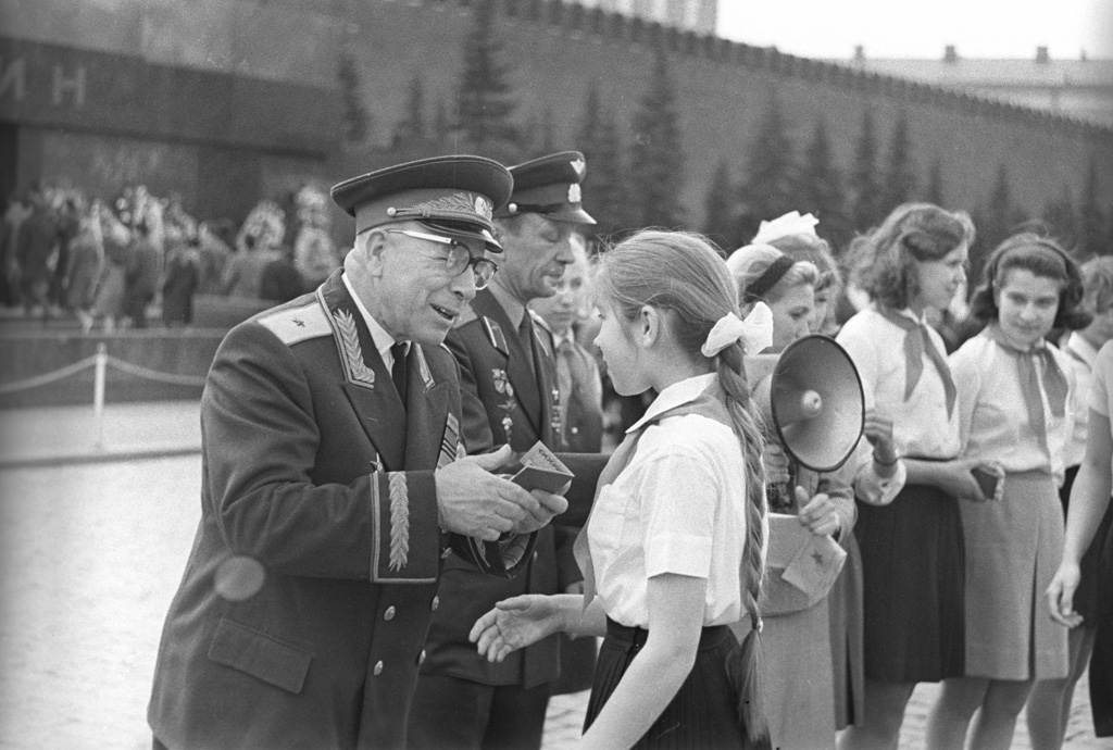 “Accepting new Komsomol members on Moscow's Red Square”. A retired Major General presenting a Komsomol [Young Communist League] card to a girl named Popova during an official function on Moscow's Red Square.